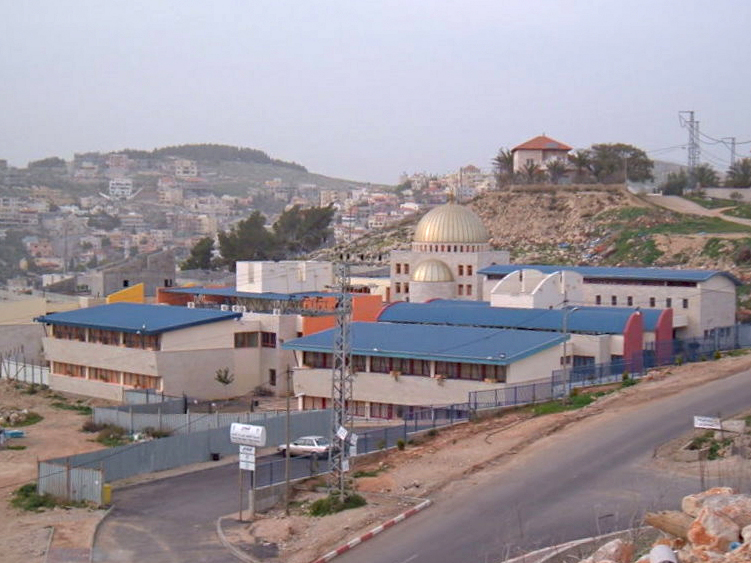 A school in Um-El-Fahm, Israel.